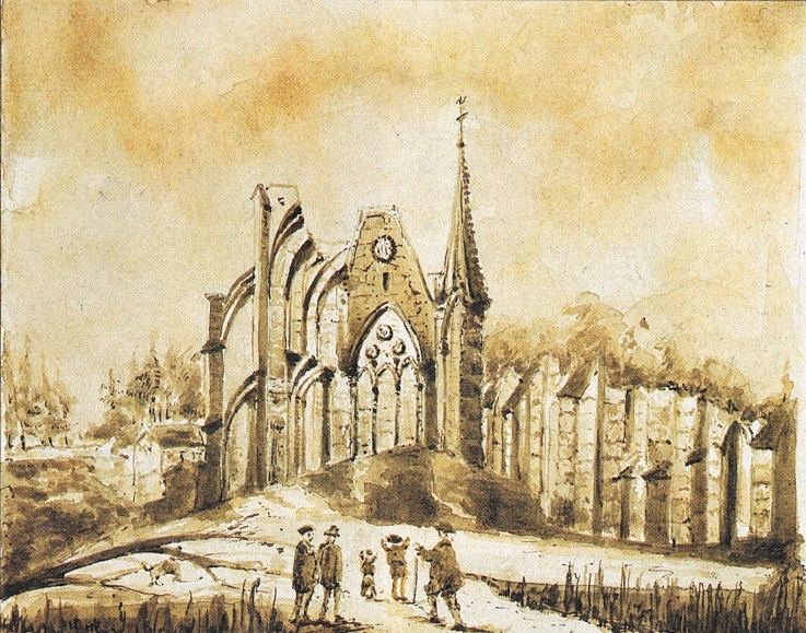 The ruins of Maubuisson Abbey in 1798